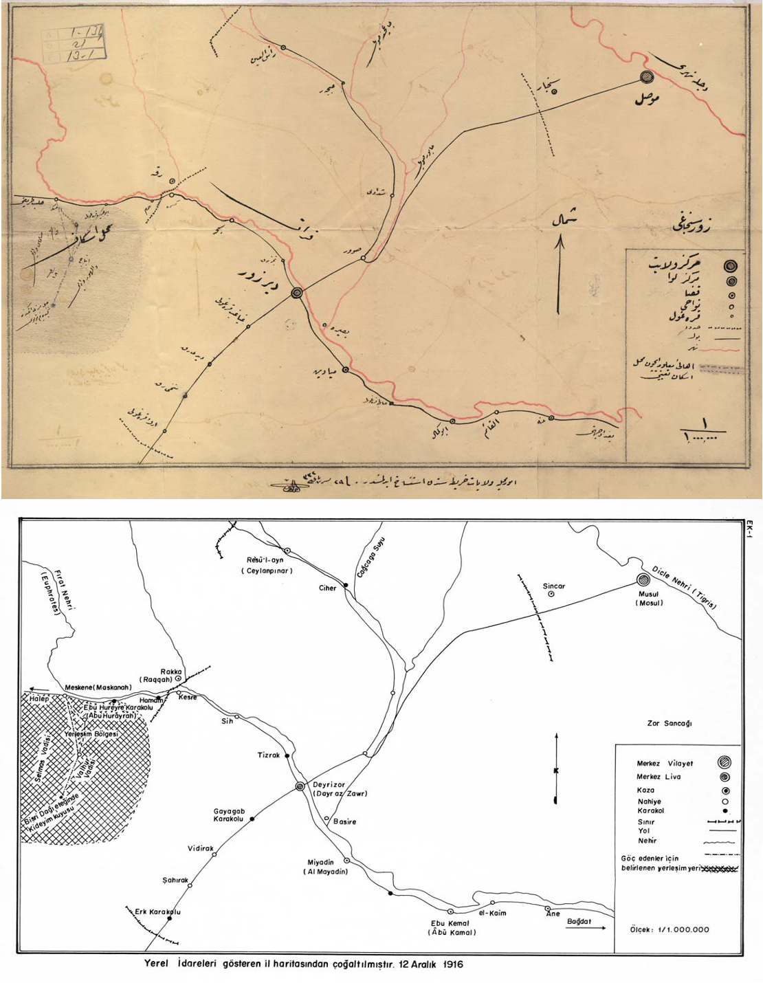 The location of Armenian refugee camp at Deir ez-Zor province from Ottoman archives